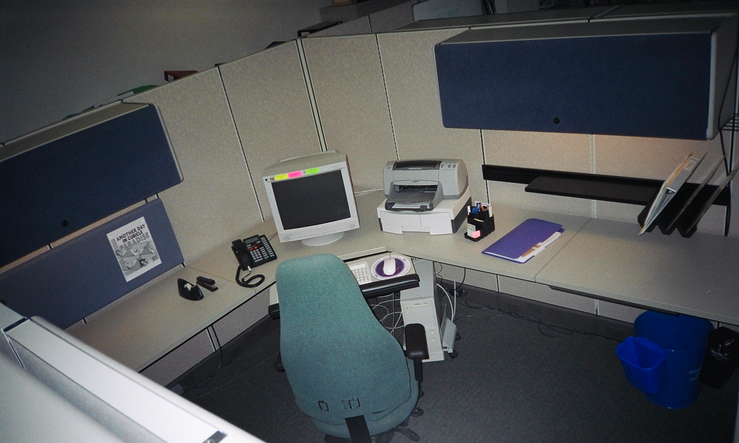 clean cubicle seen from South I have taken this picture with my camera and I am placing it in the public domain --AlainV 02:16, 12 Jan 2005 (UTC) This cubicle measures 8 feet by 10 feet